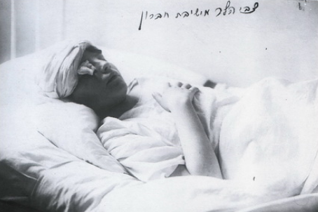 Zvi Hirsh Heller (aged 15) of Petach Tikva studied at the Hebron Yeshiva. He was a victim of the 1929 Hebron Massacre and died of his wounds in hospital in Jerusalem.